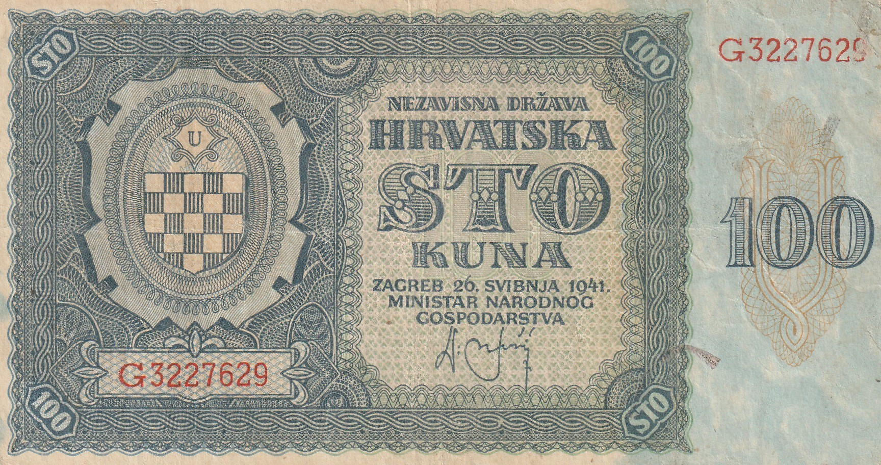 100 kuna 26. svibnja 1941.